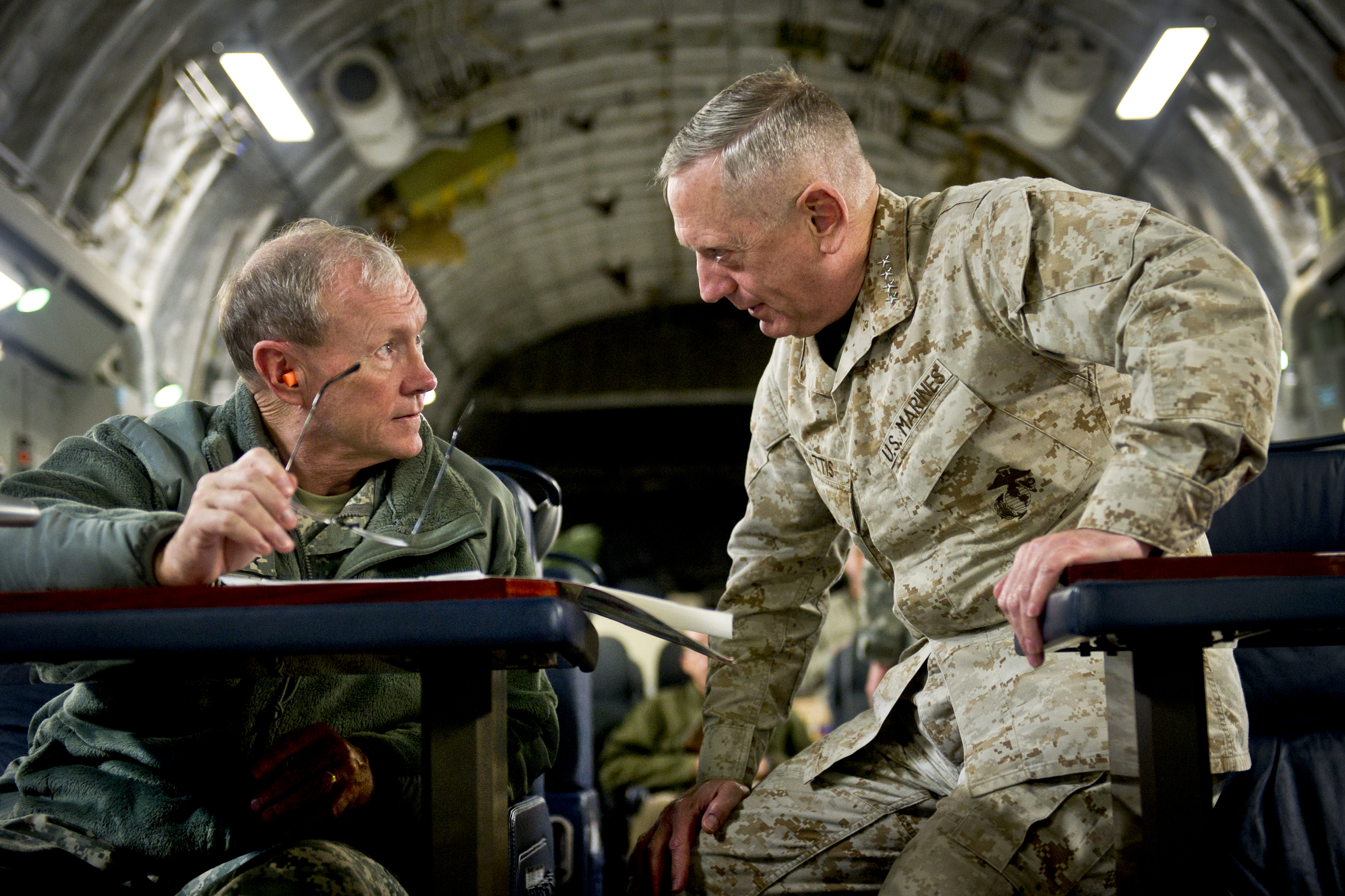 U.S. Army Gen. Martin E. Dempsey, left, chairman of the Joint Chiefs of Staff, and U.S. Marine Corps Gen. James N. Mattis, commander of U.S. Central Command, talk on board a C-17 while flying to Baghdad, Dec. 15, 2011.